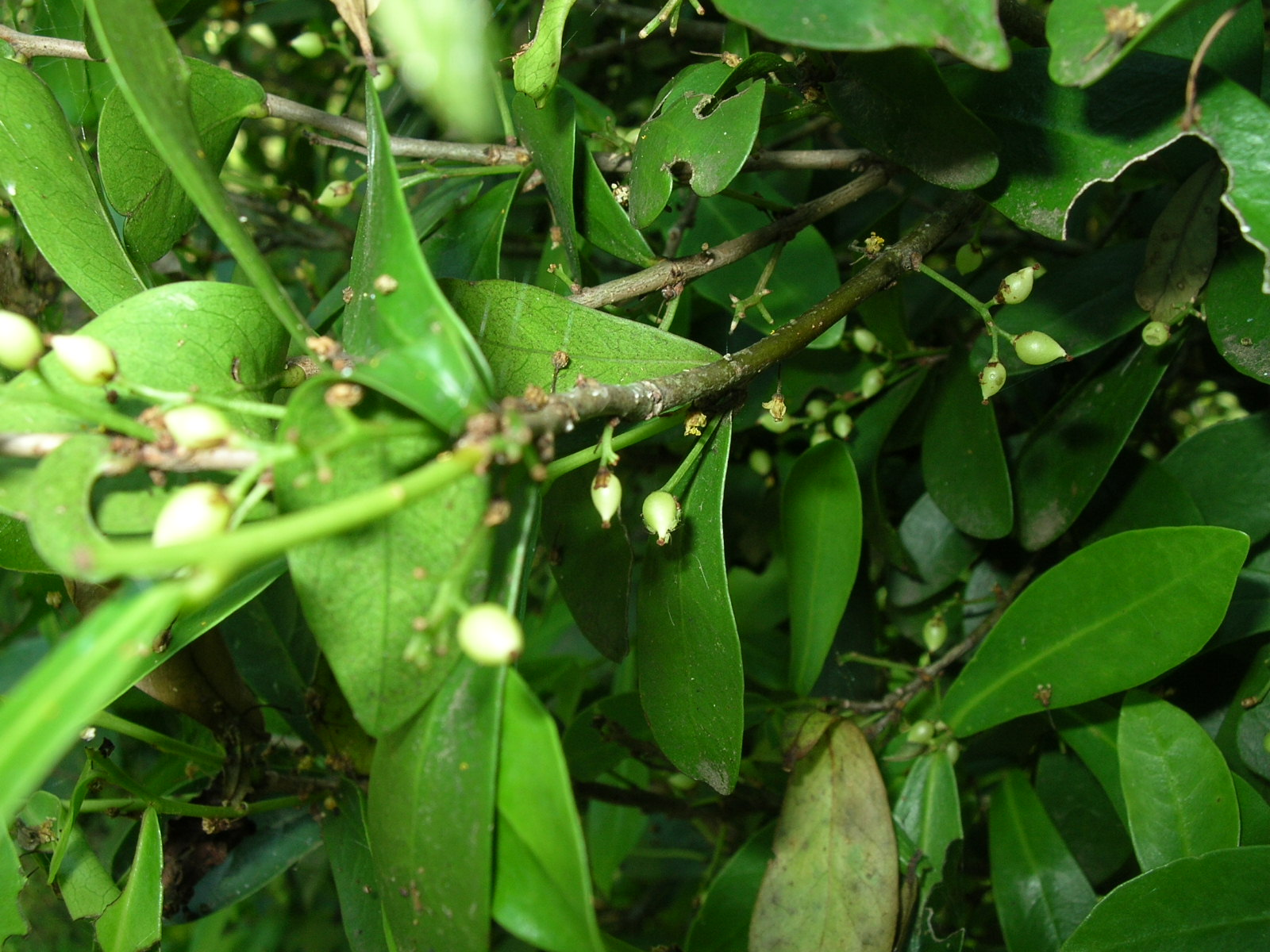 flora uruguay